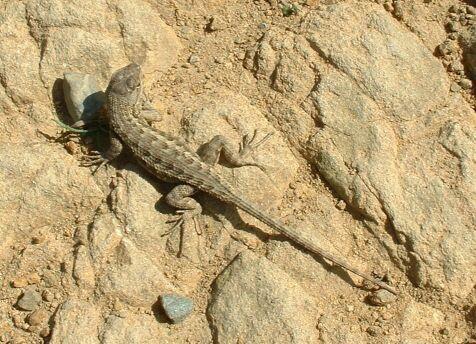 Western fence lizard, photographed in the Claremont Canyon Regional Preserve, Berkeley, California.